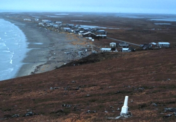 View of the Wales Site, a National Historic Landmark District near Wales, Alaska, United States, with the city of Wales visible in the background.